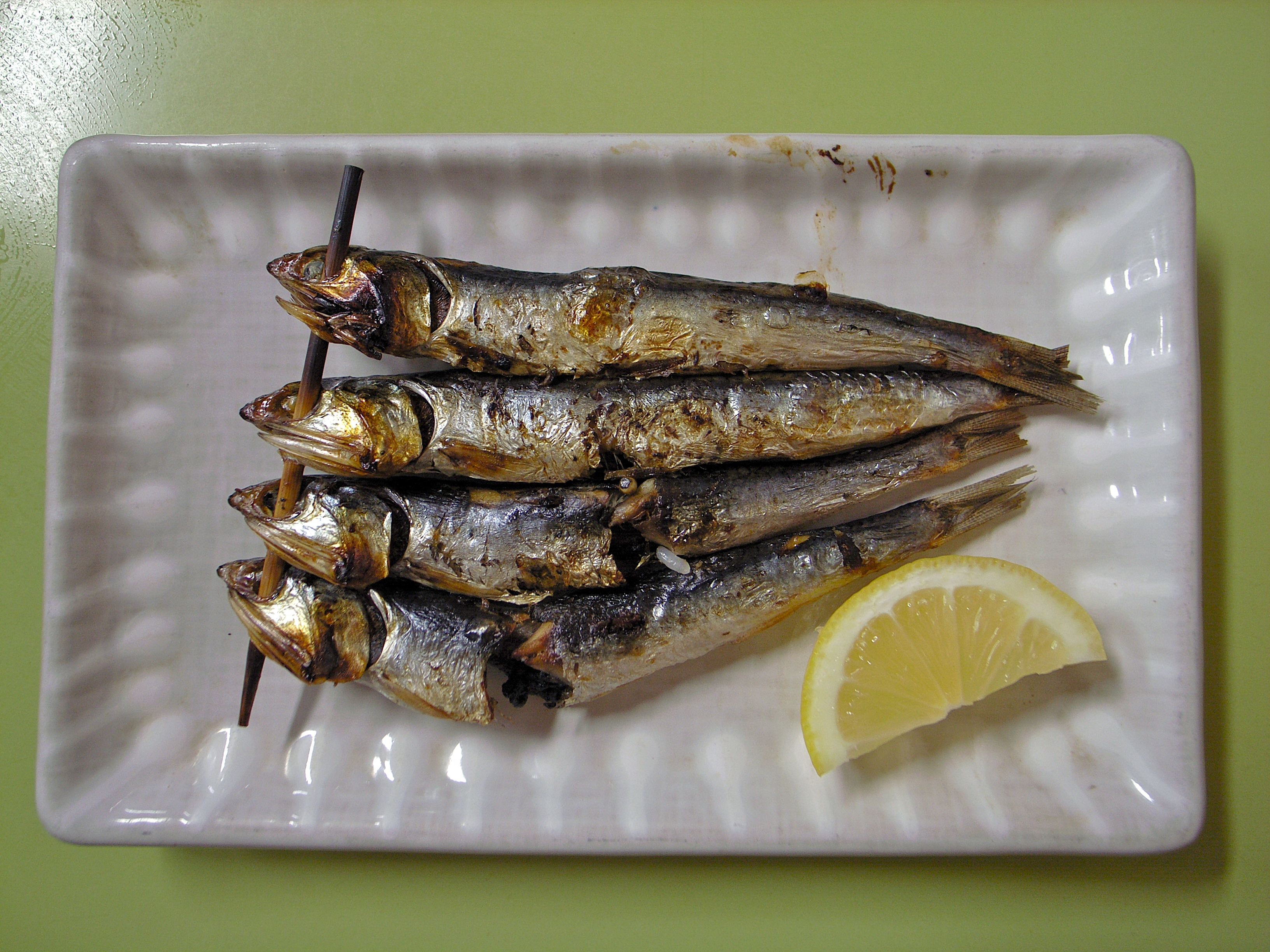 mezashiFoodCourt